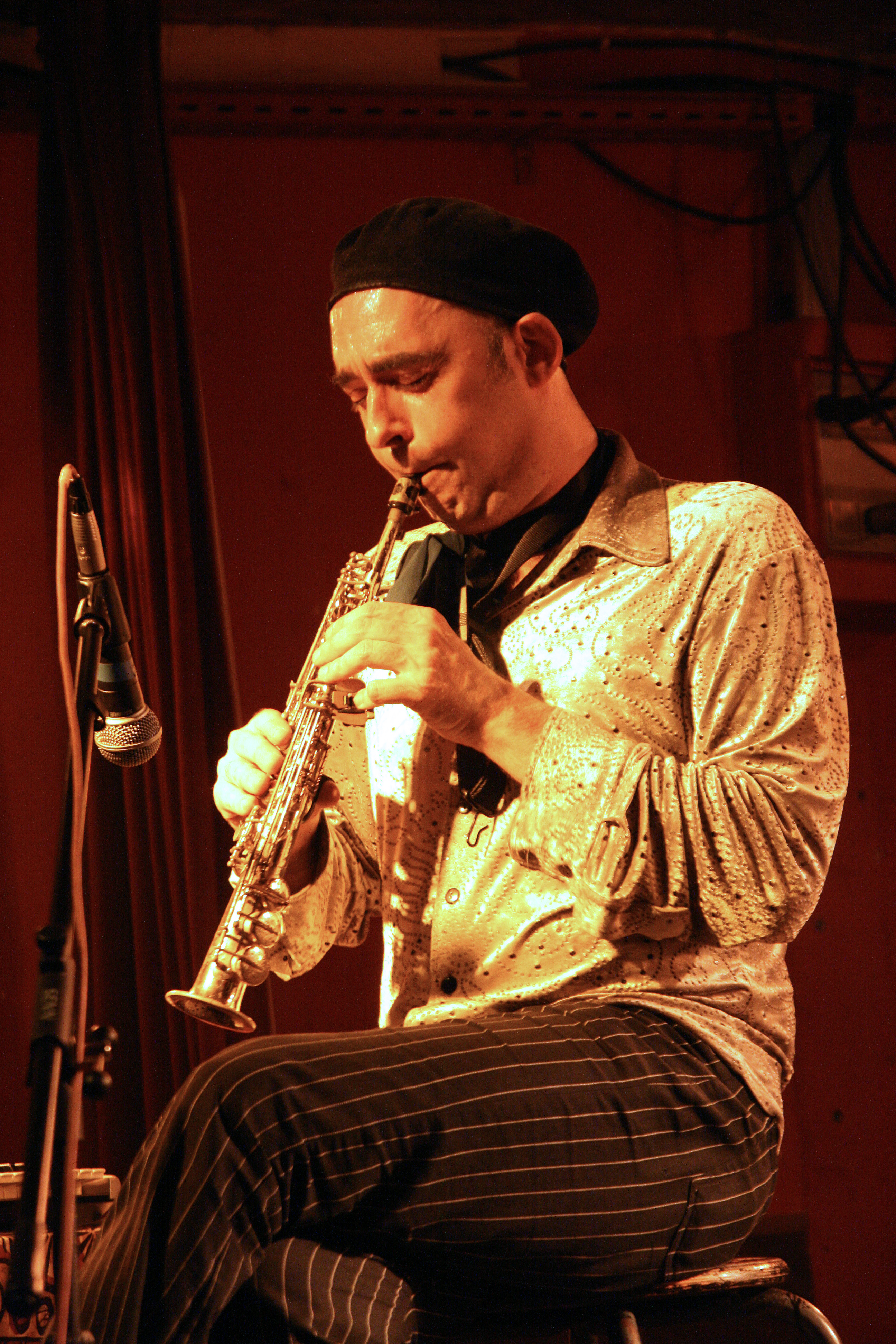 Christophe Monniot, french jazz saxophonist